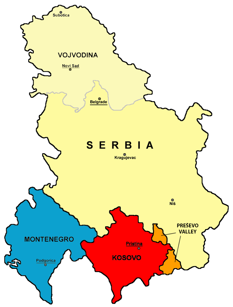 Unrecognized Republic of Kosova and Preševo Valley after 1992 referendums